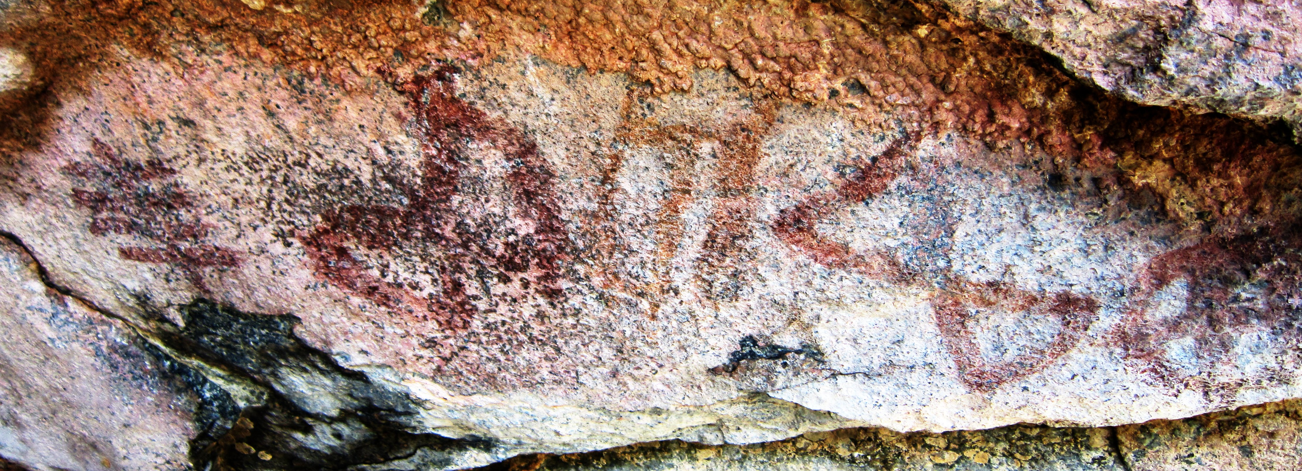 edited